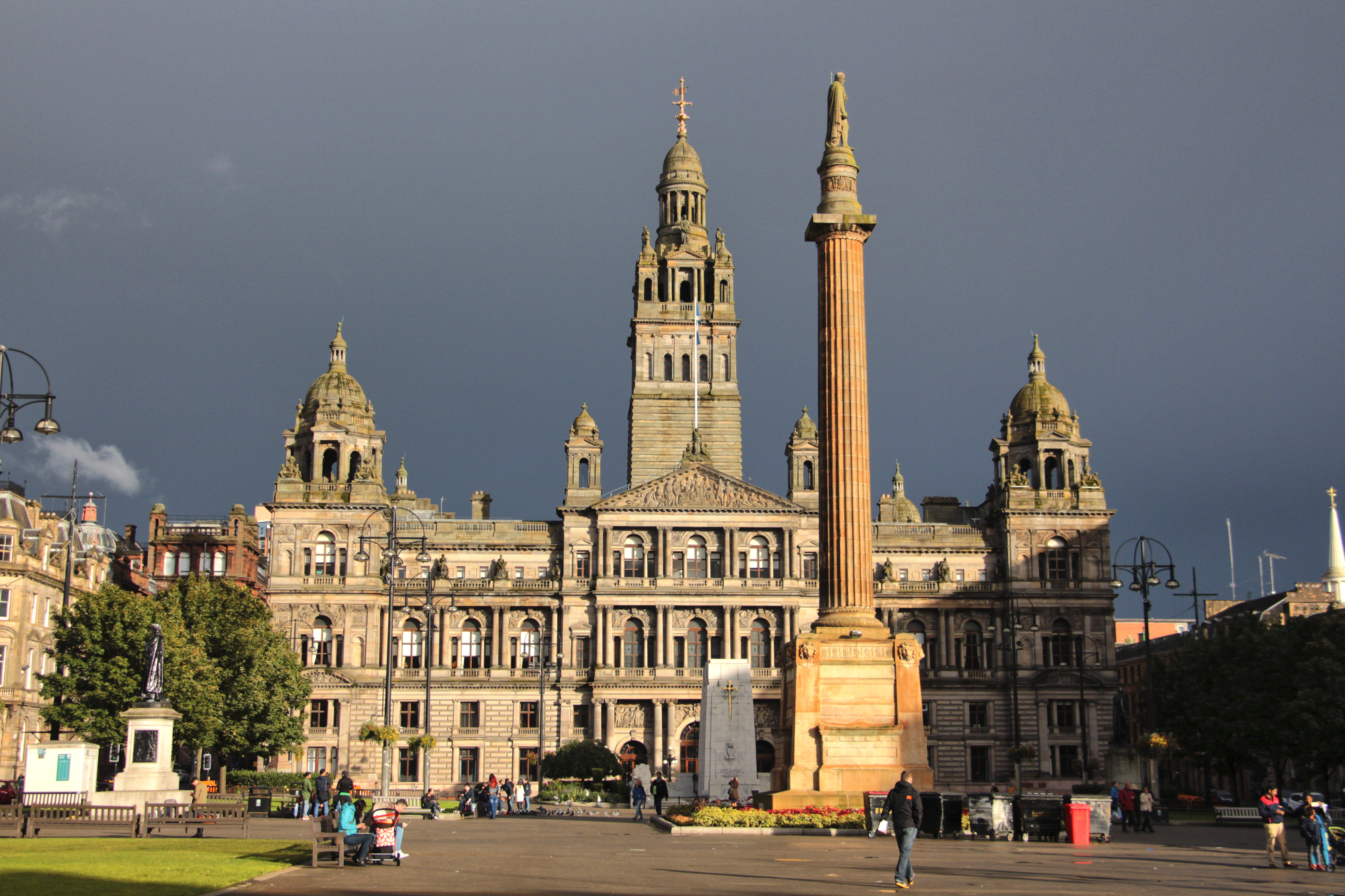 Glasgow City Chambers Wikidata has entry Q5566778 with data related to this item.